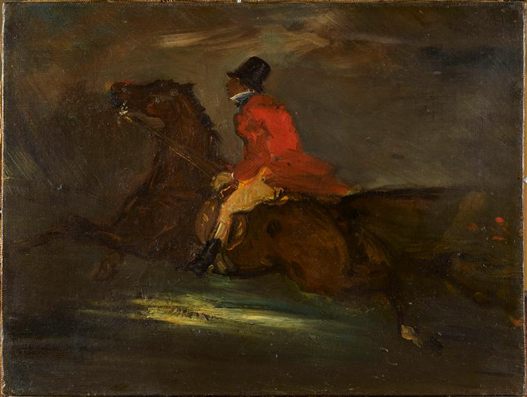 Cavalier, Cat.632